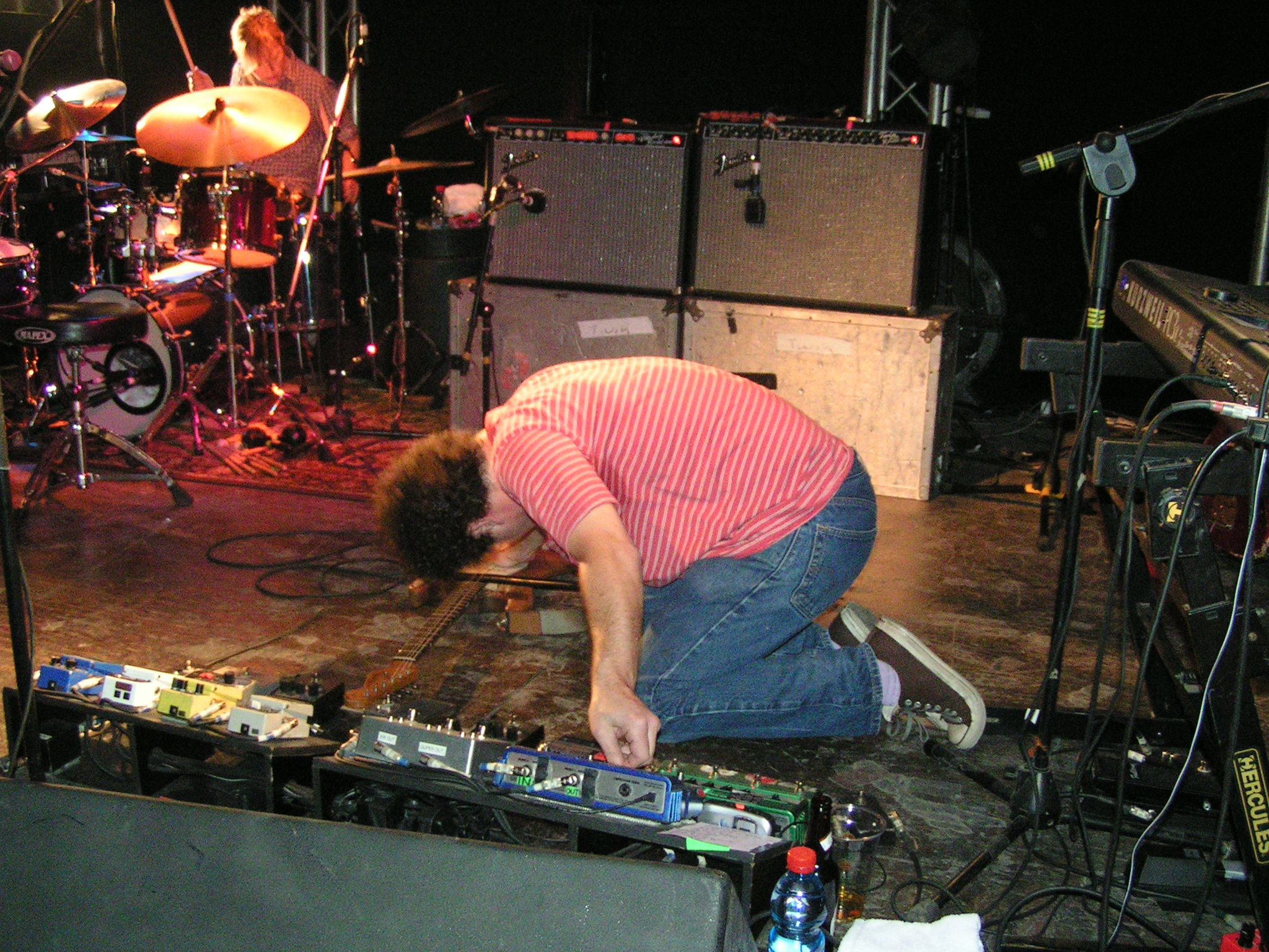 Yo La Tengo, playing live in the Barby club in Tel-Aviv. The Popular Songs tour. March 22, 2010. Ira Kaplan Georgia Hubley